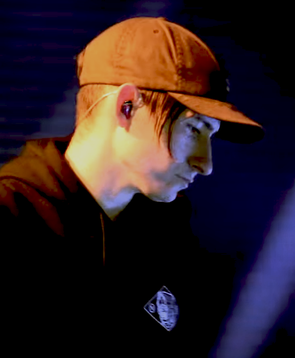 nothing,nowhere. performing in Los Angeles